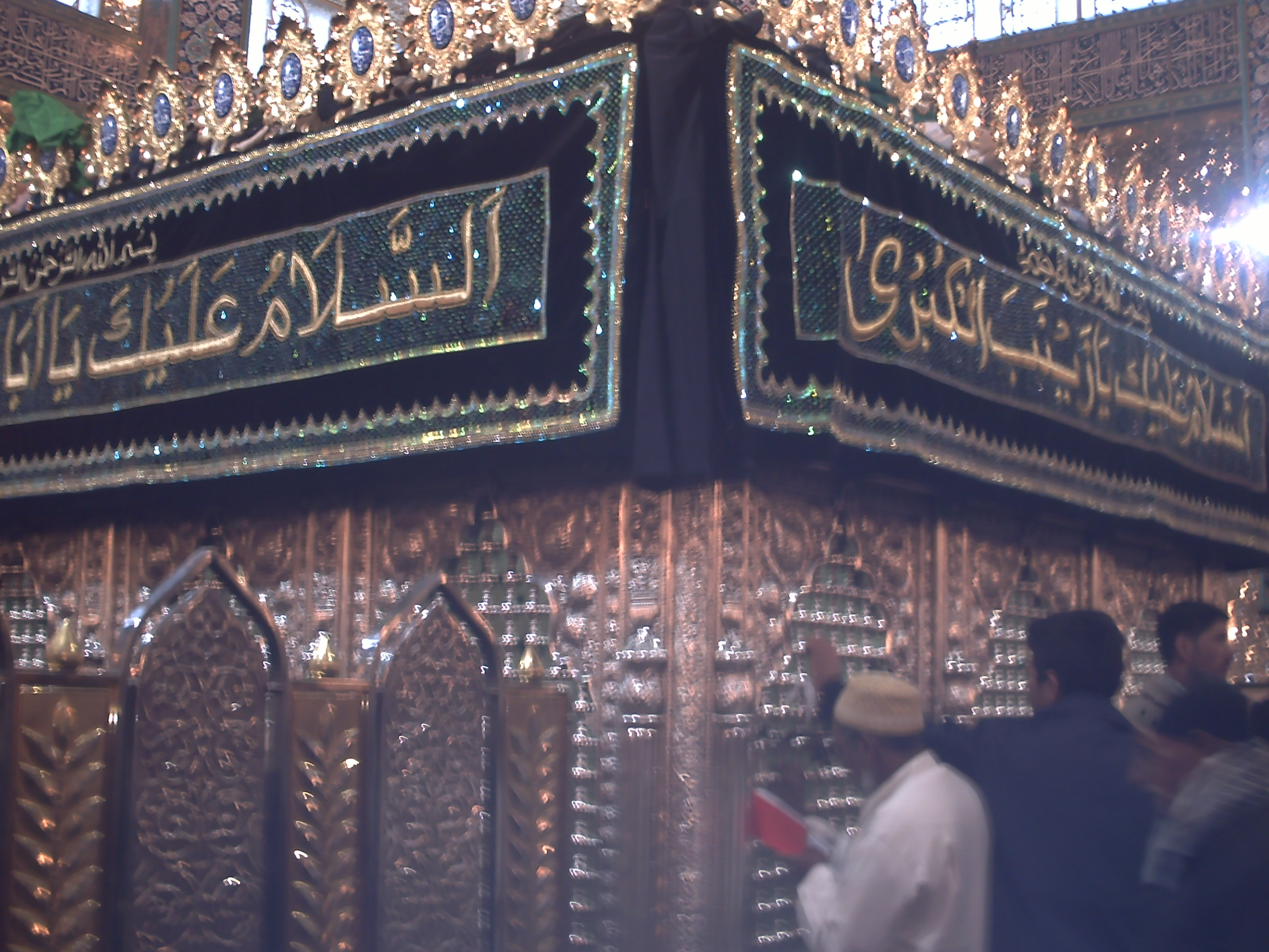 Zarih_Zaynab-ul-Kubra,Damascus